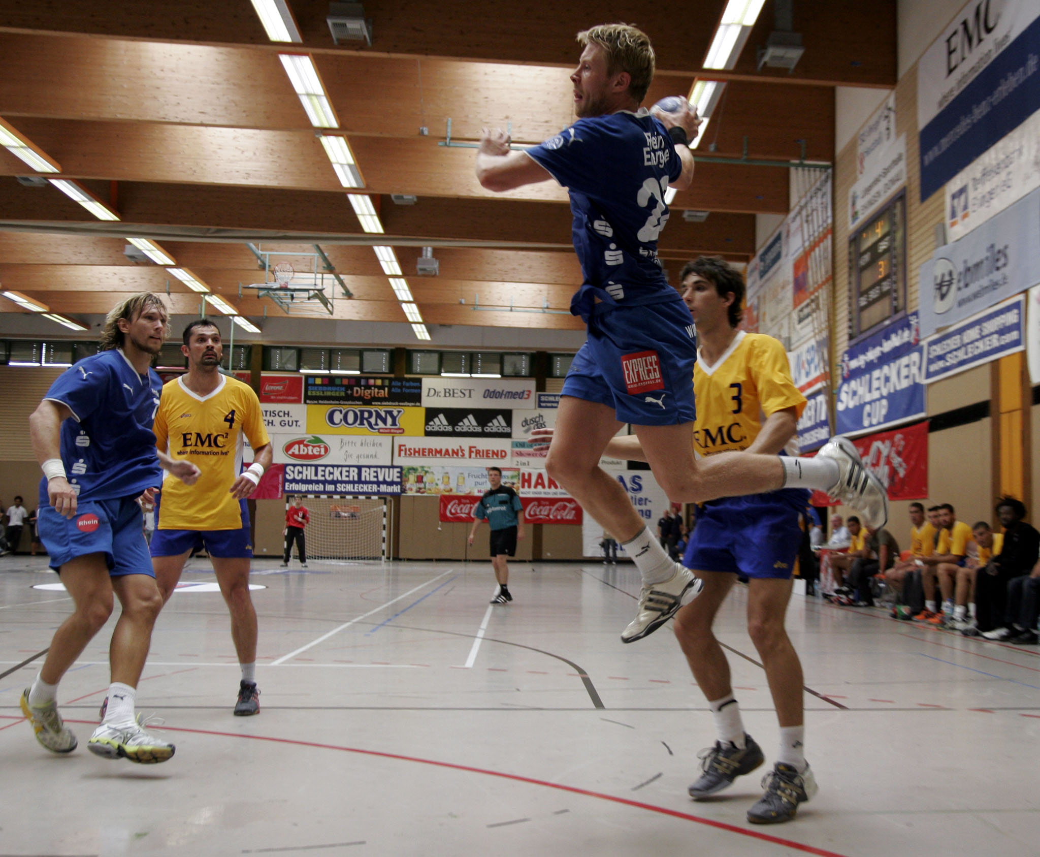 Guðjón Valur Sigurðsson, handball player from Iceland, during the Schlecker Cup 2007 in Ehingen (Germany)